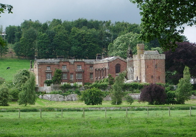 Rose Castle, Raughton Head